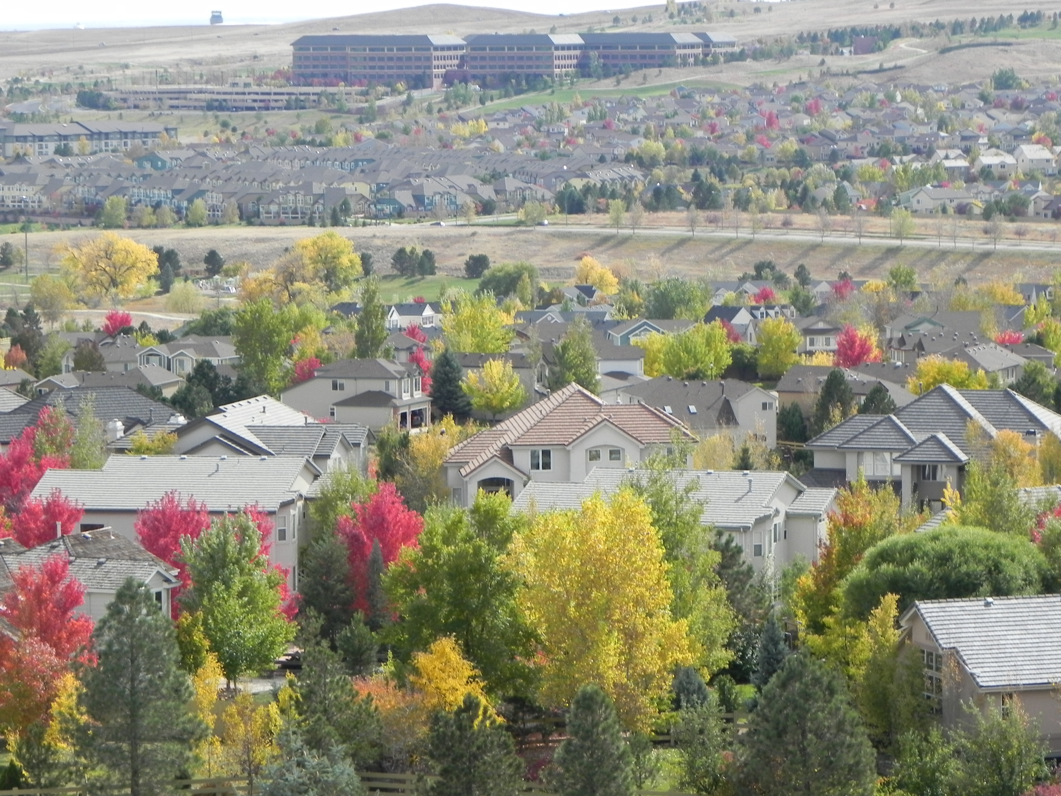 Overlook of a portion of the Rock Creek subdivision in Superior, Colorado